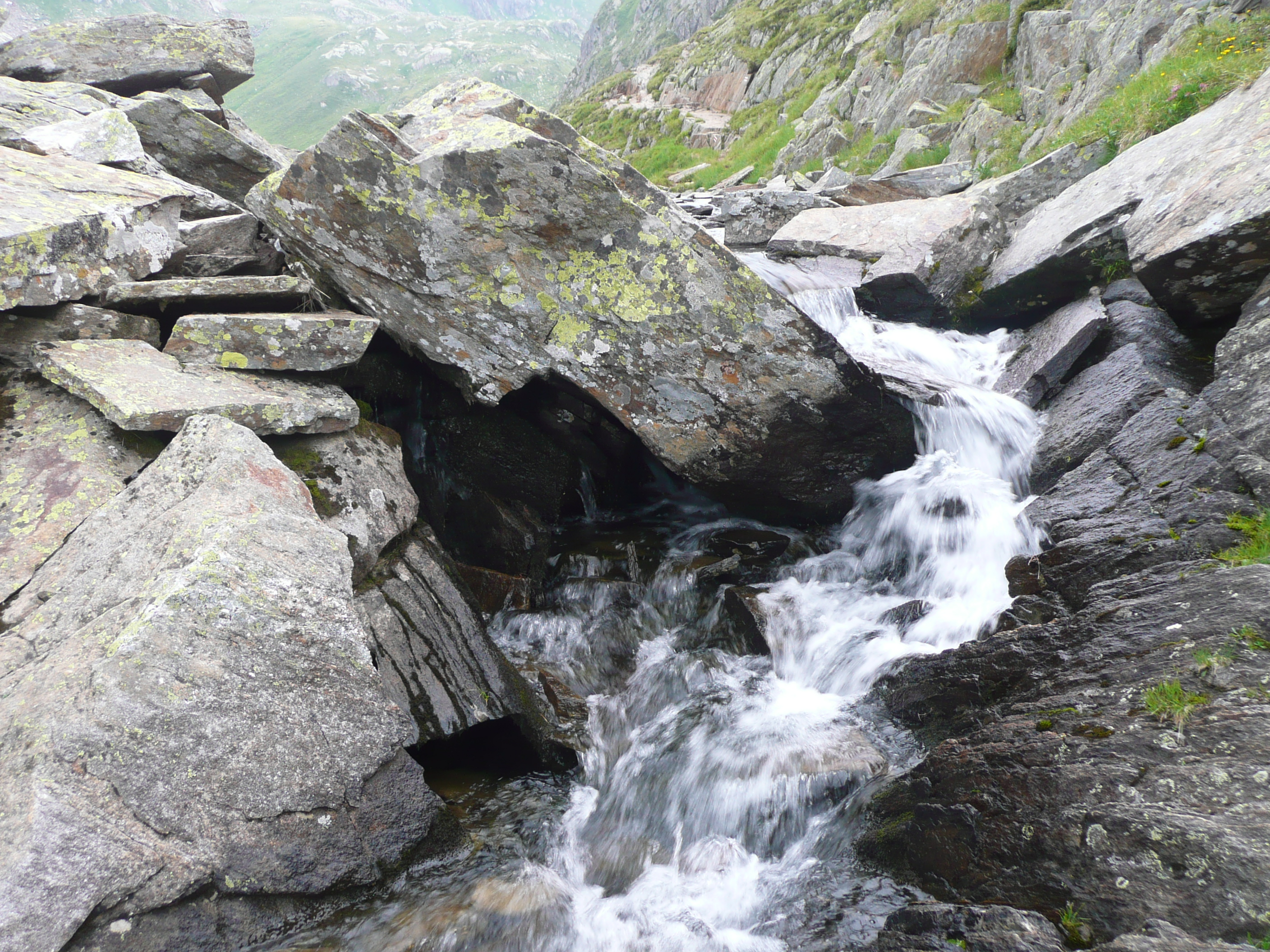 the flowing of the Rein da Tuma from the Lake da Tuma